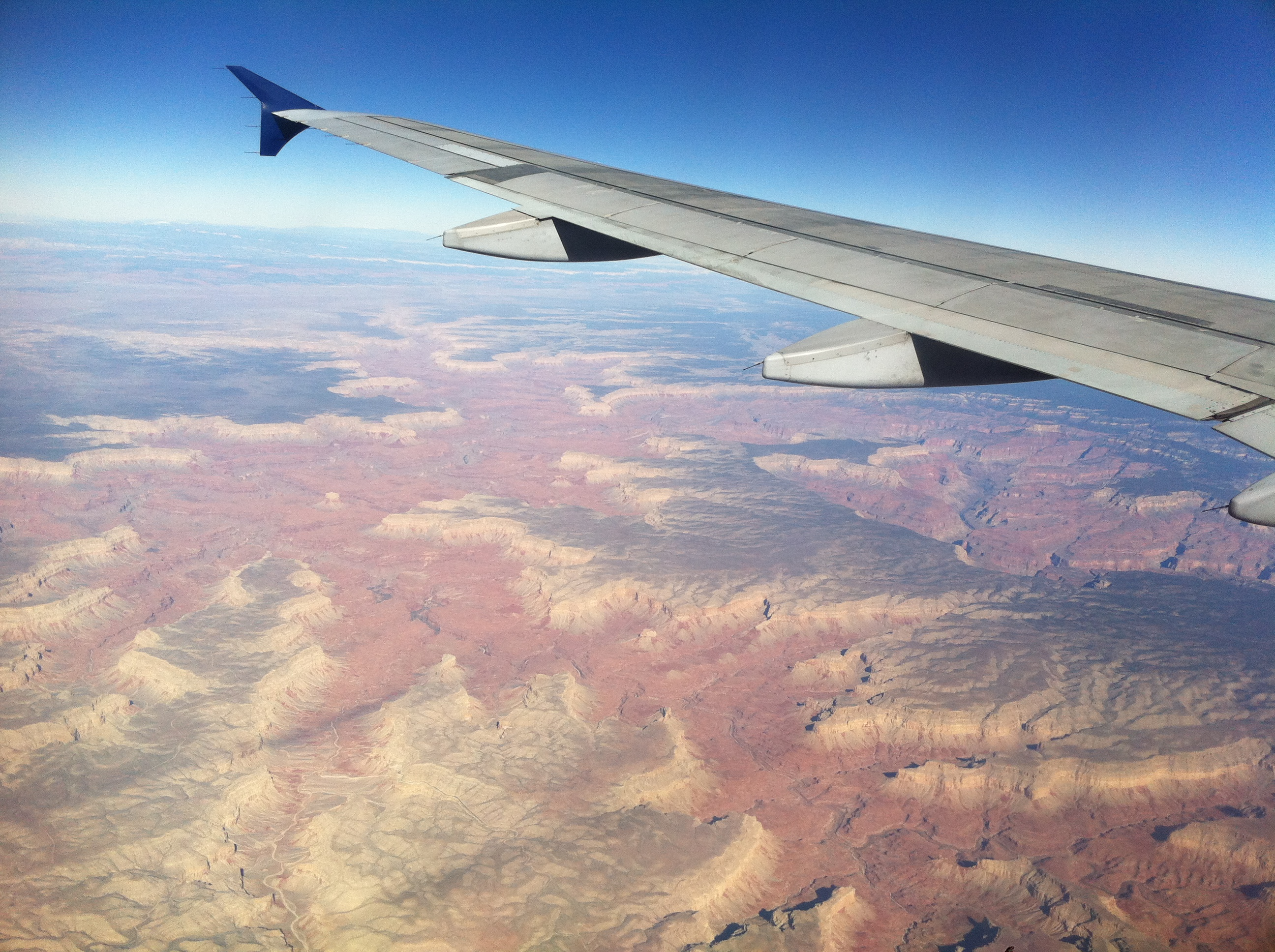 Grand Canyon, view from airliner